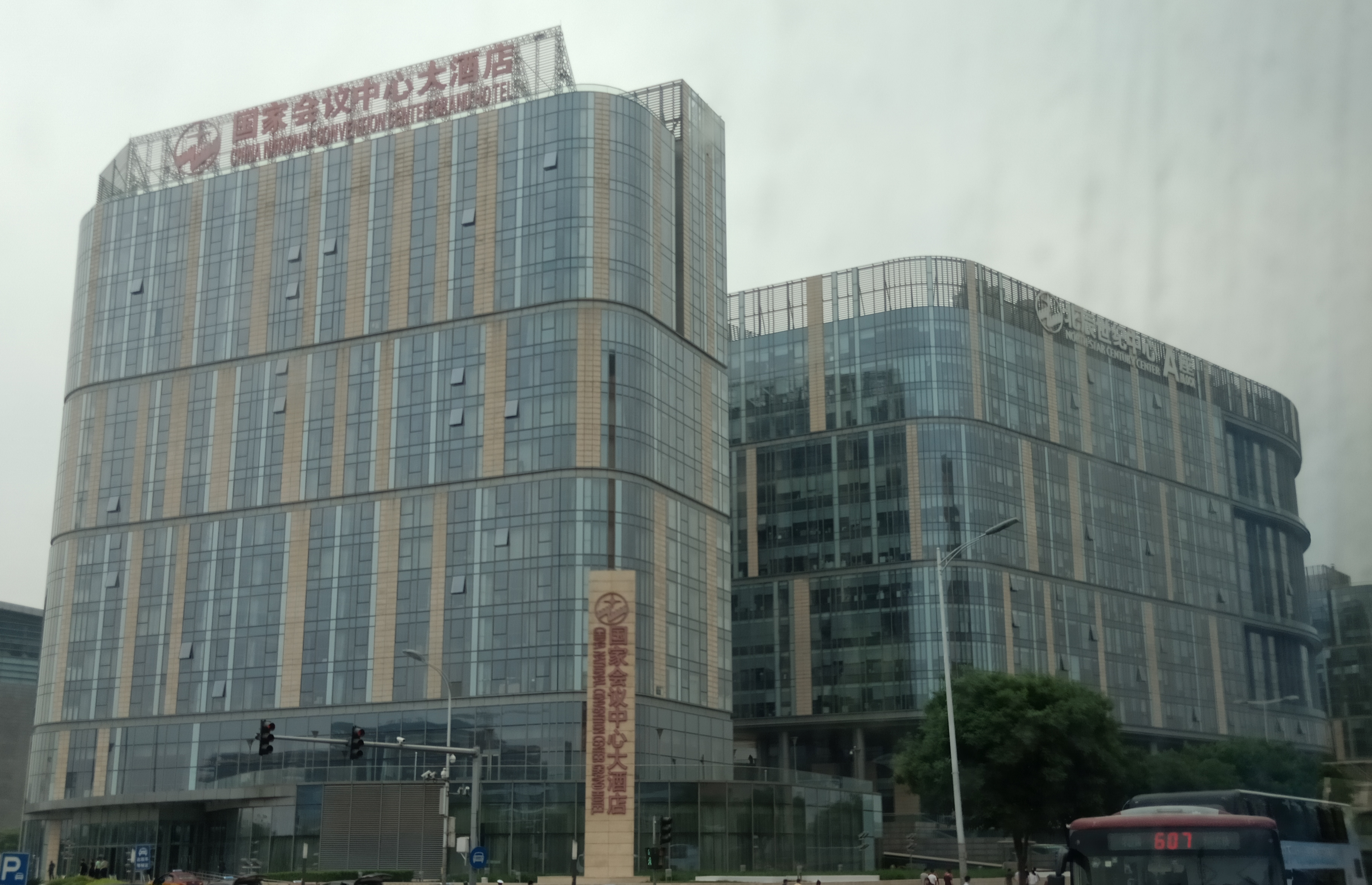 China National Convention Center Grand Hotel